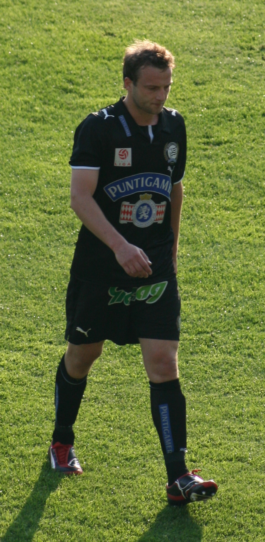 Ferdinand Feldhofer, player SK Sturm Graz